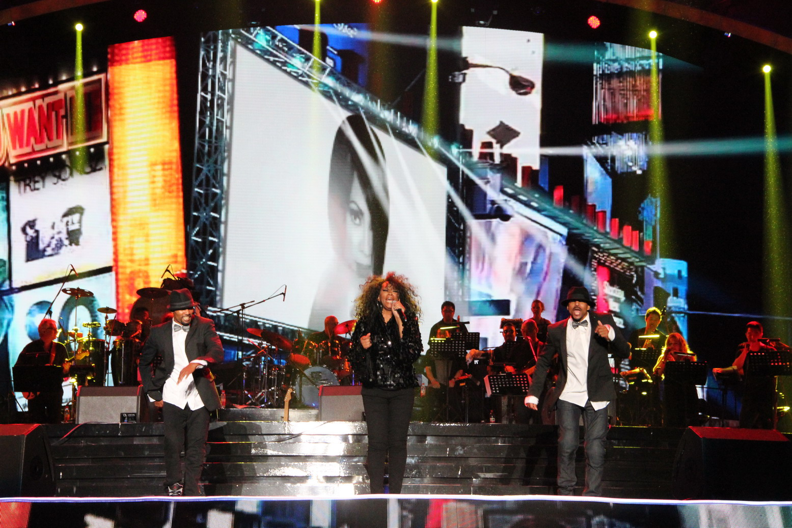 Jody Watley @ 2013 Night of Fortune Grammy Superstars, Chengdu